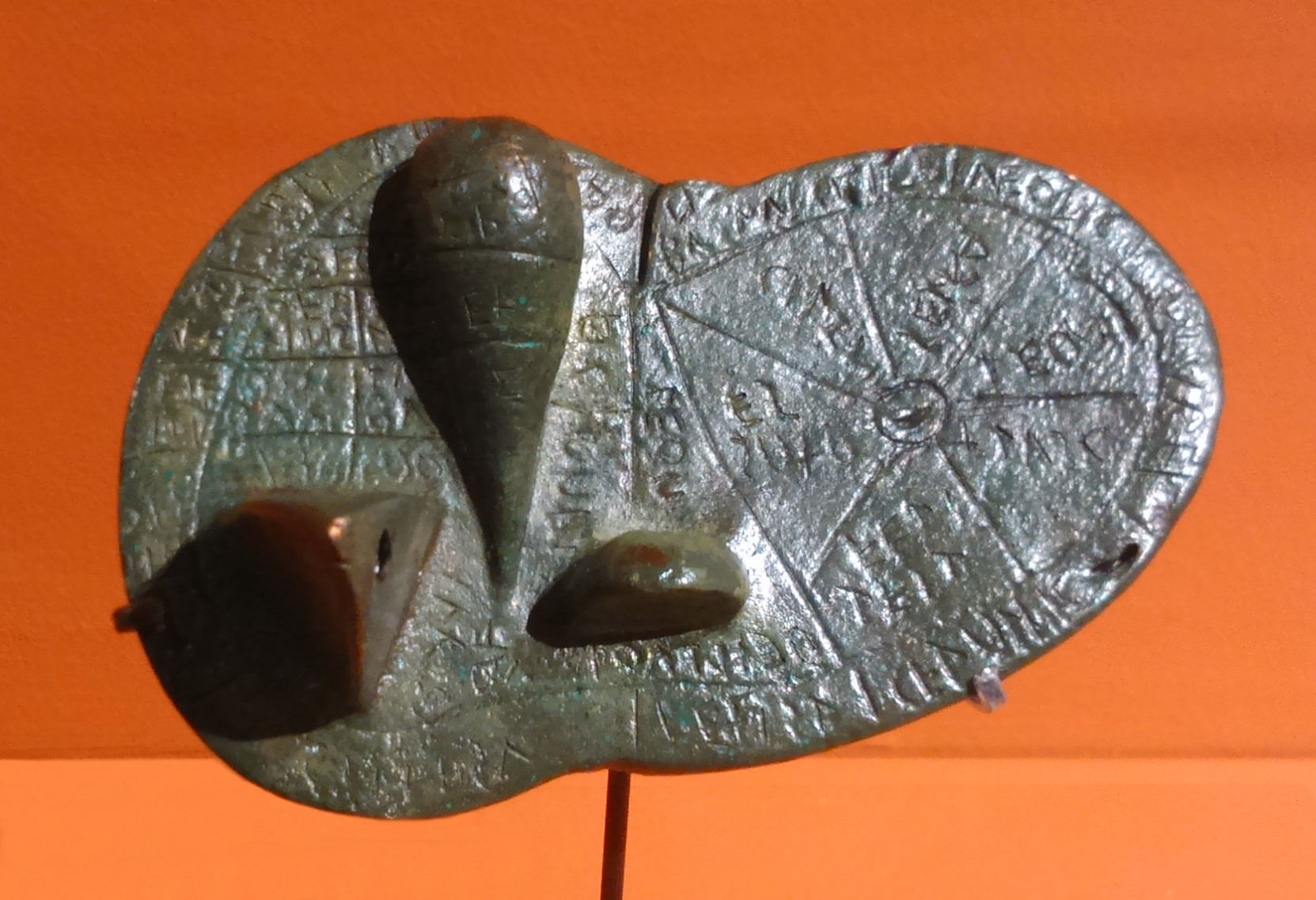 Liver of Piacenza, Mantik.